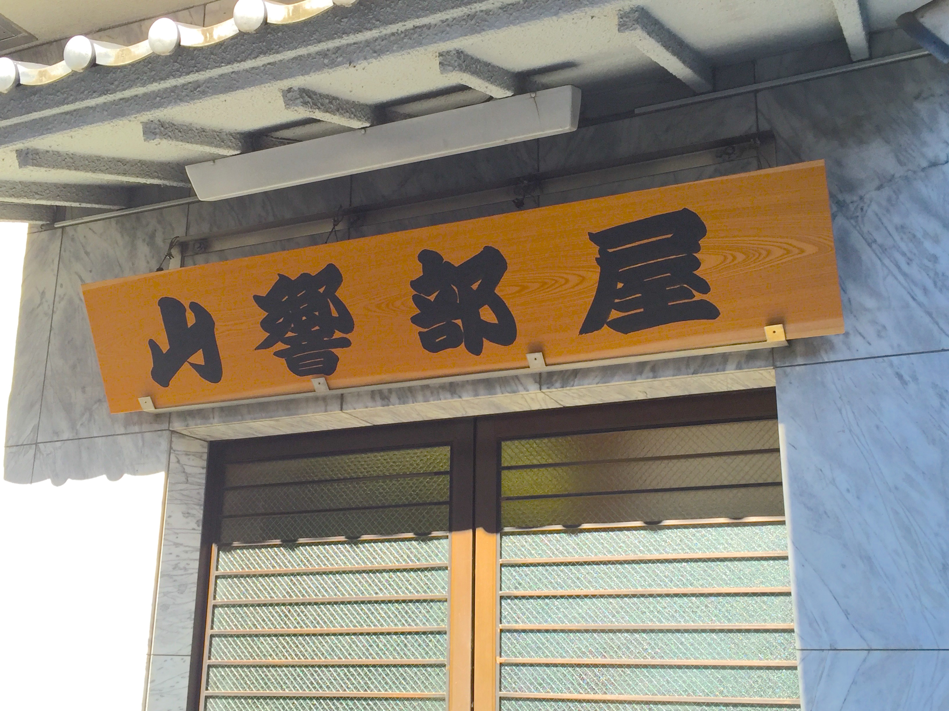 Taken outside the stable, January 2016